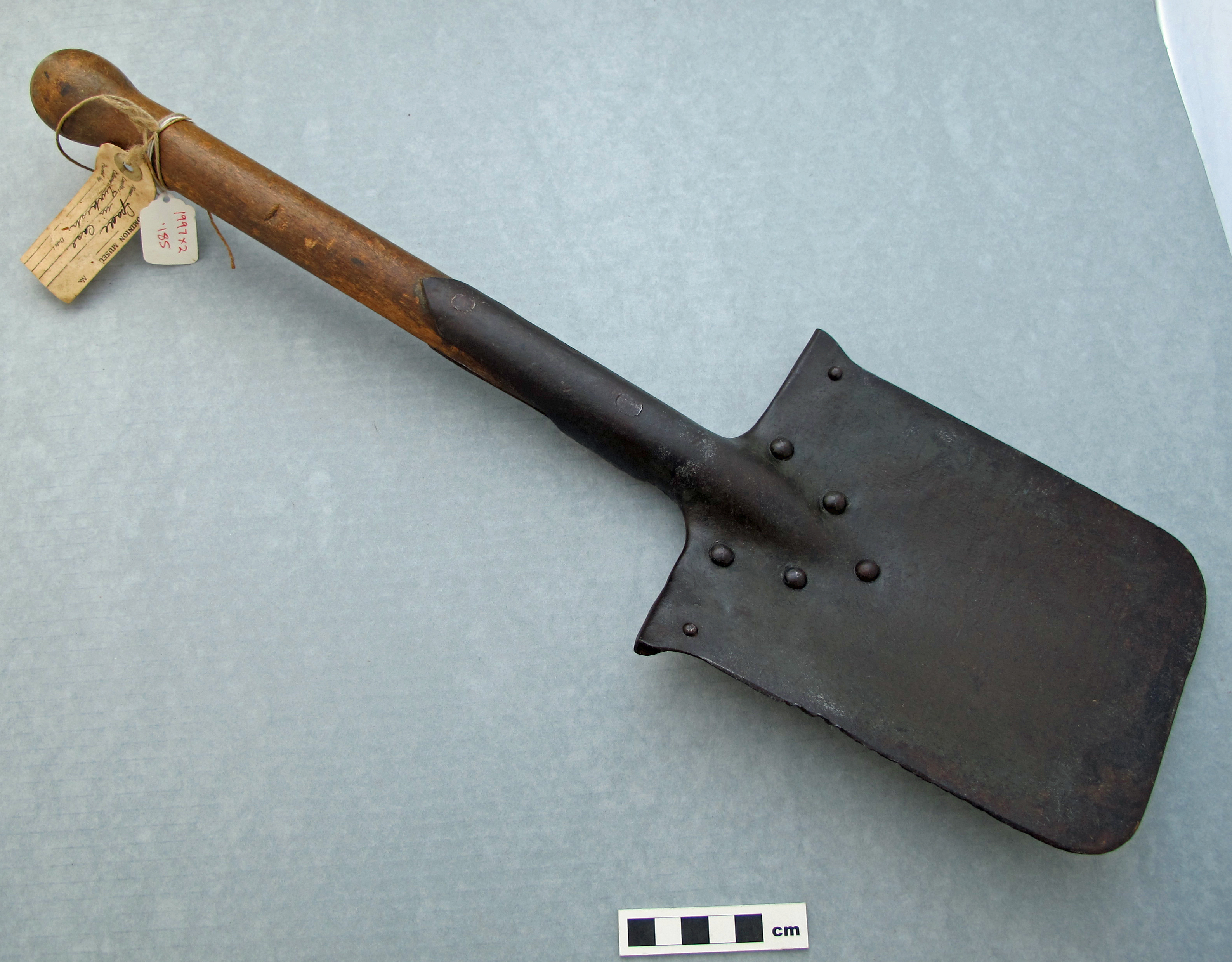 Turkish spade, WW1 wooden handle; square metal blade; upper end of blade folded over and riveted on reverse; handle fits into metal socket riveted to blade and partly formed as an extension of the blade; short wooden handle ends in circular knob markings- 'HD' engraved on handle Spade found with label stating 'Turkish', but it is possibly German-made. The style of its manufacture with the upper end of the blade being folded over and riveted is characteristic of German manufactured shovels of WW1.